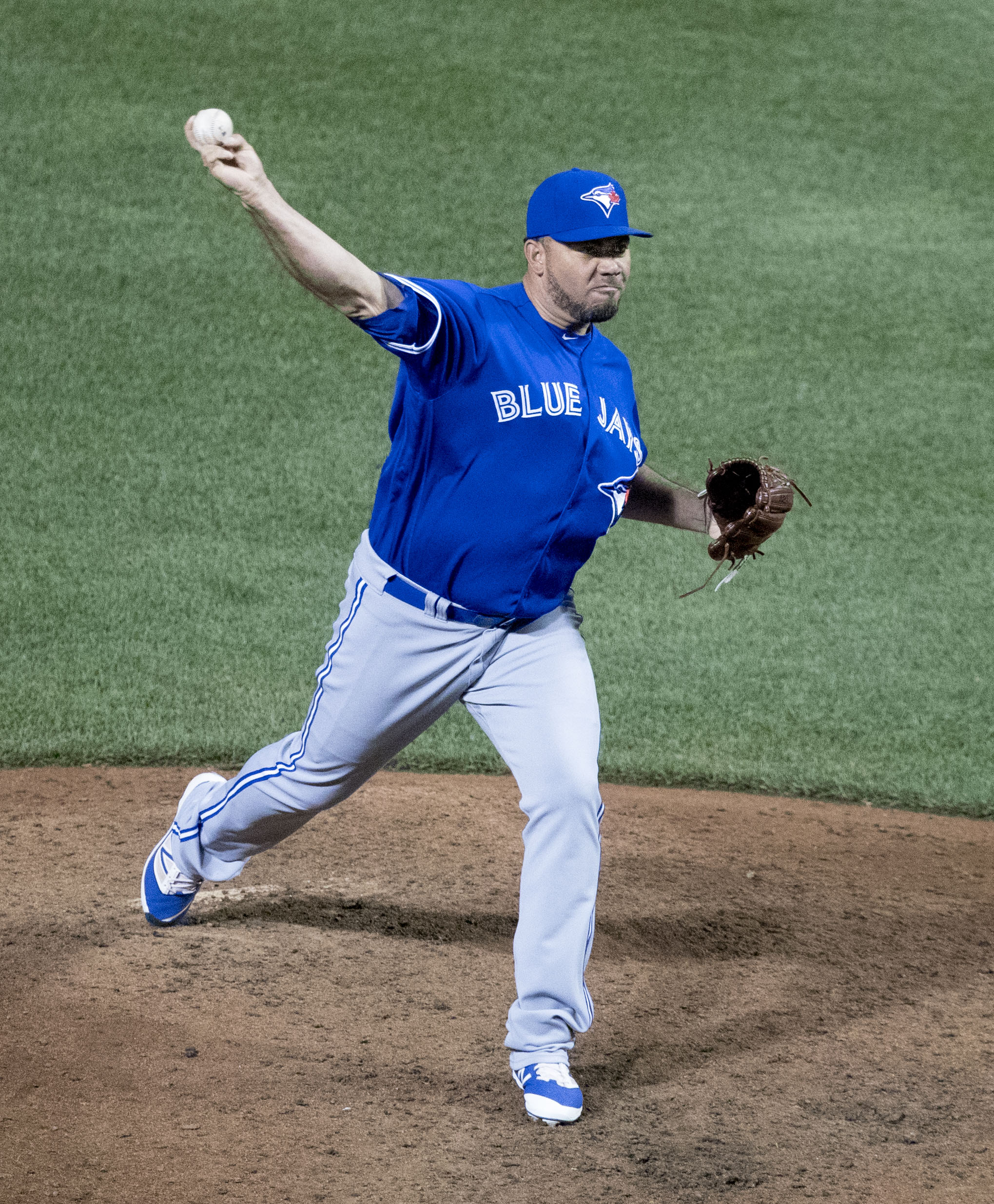 Joaquín Benoit on August 29, 2016